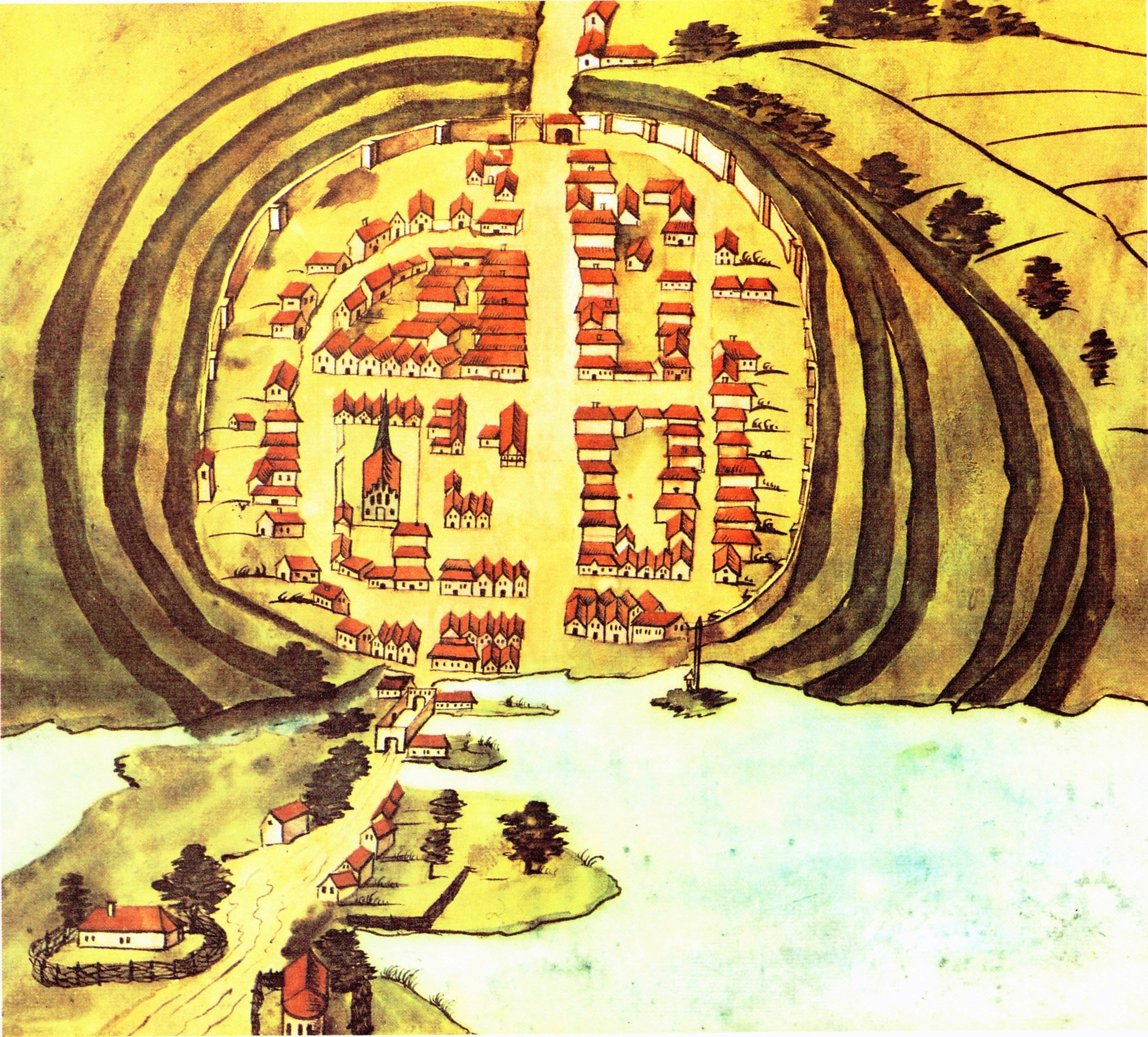 Cityview of Bahn(Banie) from the "Stralsunder Bilderhandschrift"